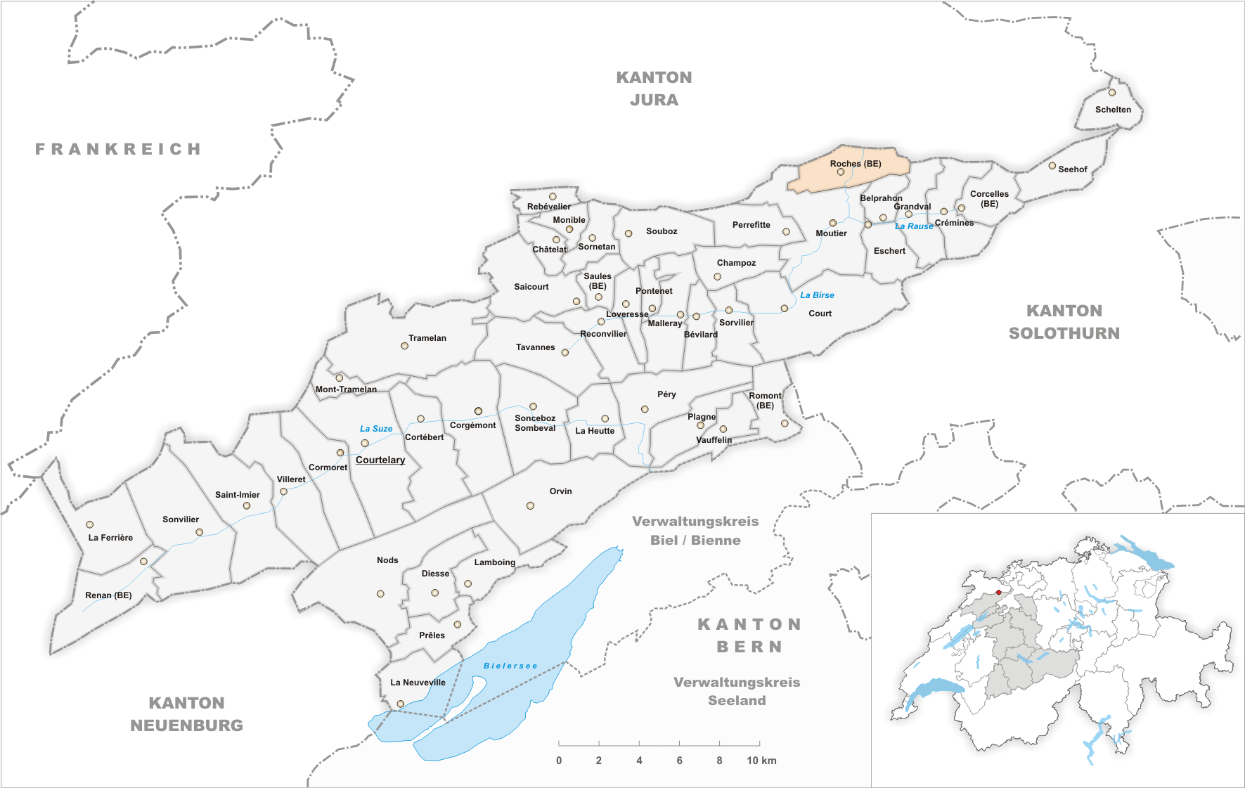 Municipality Roches